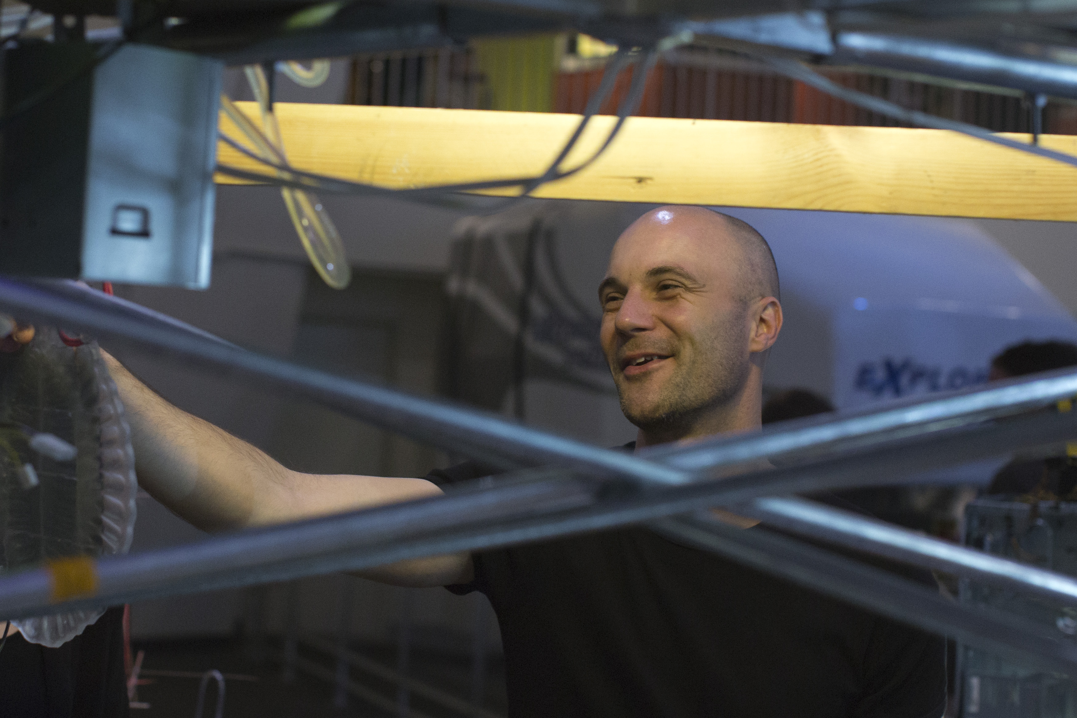 Biomodd's Angelo Vermeulen Images from the opening party for ReGeneration at the New York Hall of Science in New York October 25, 2012. Andrew Kelly (UNITED STATES)